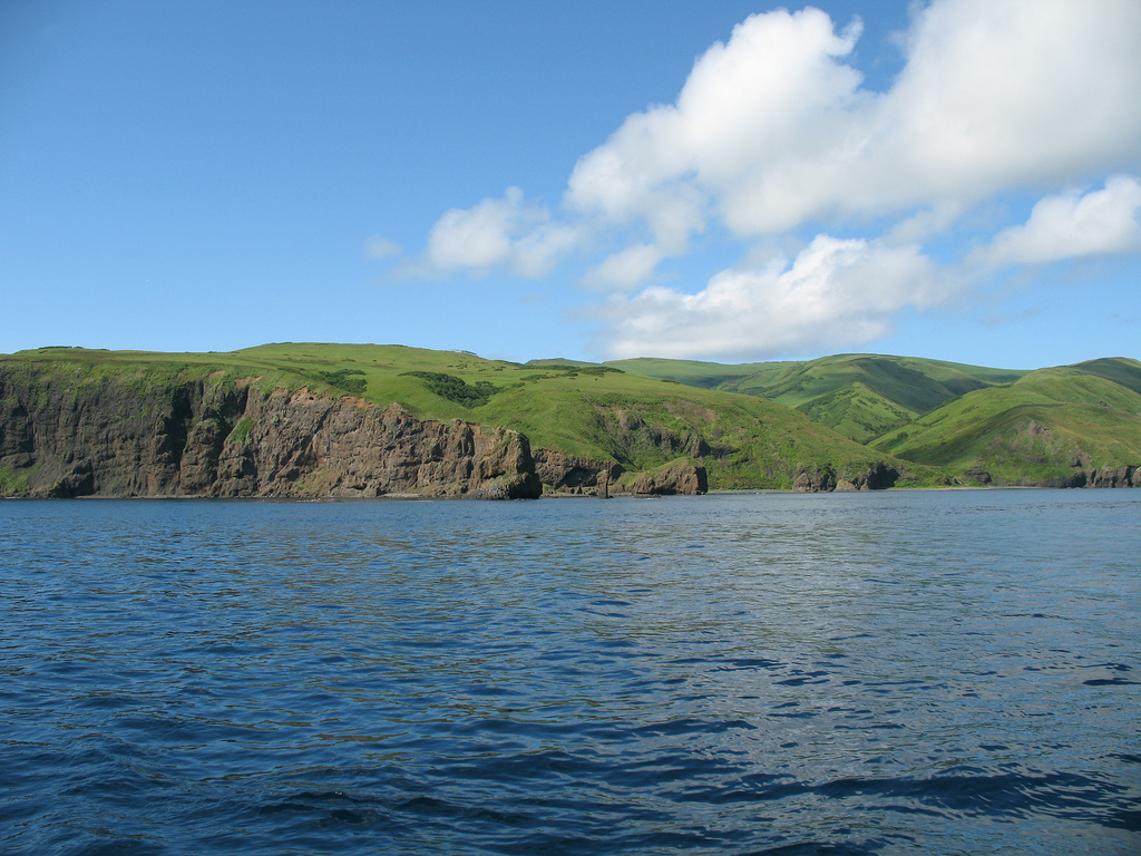 Moneron Island in the Sea of Japan (East Sea)